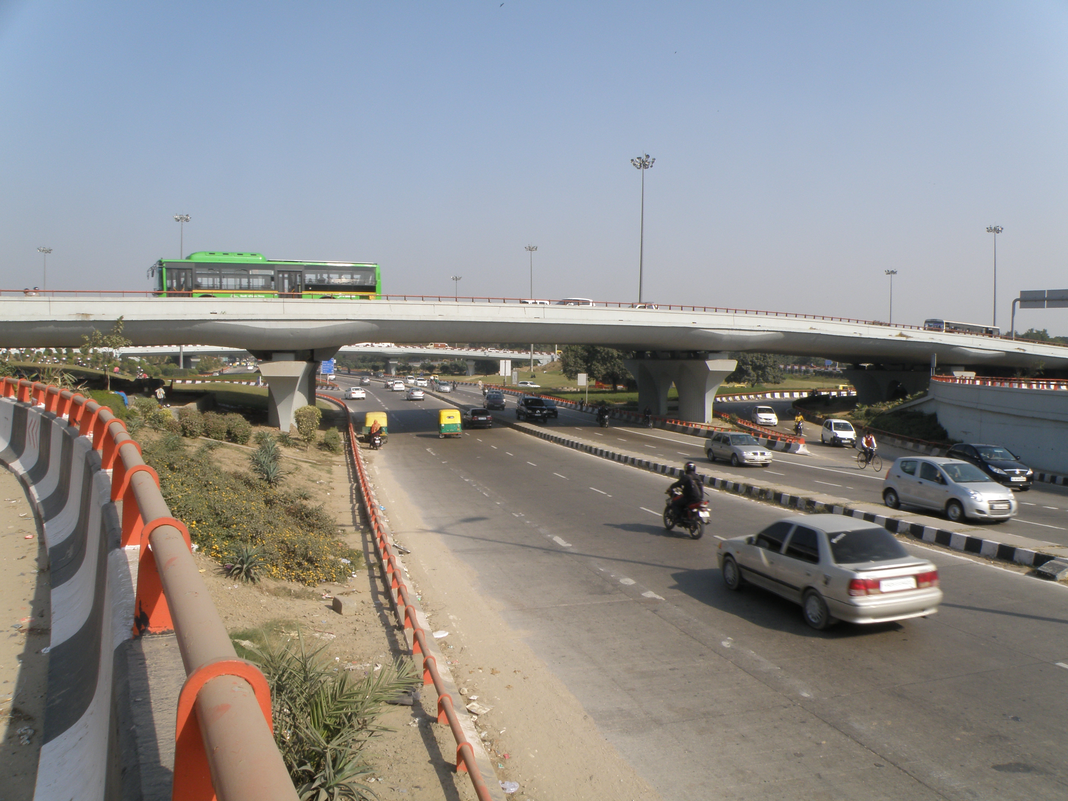 AIIMS flyover in Delhi, India, as seen from the south, on Aurobindo Marg. The road on the flyover is the Ring Road.